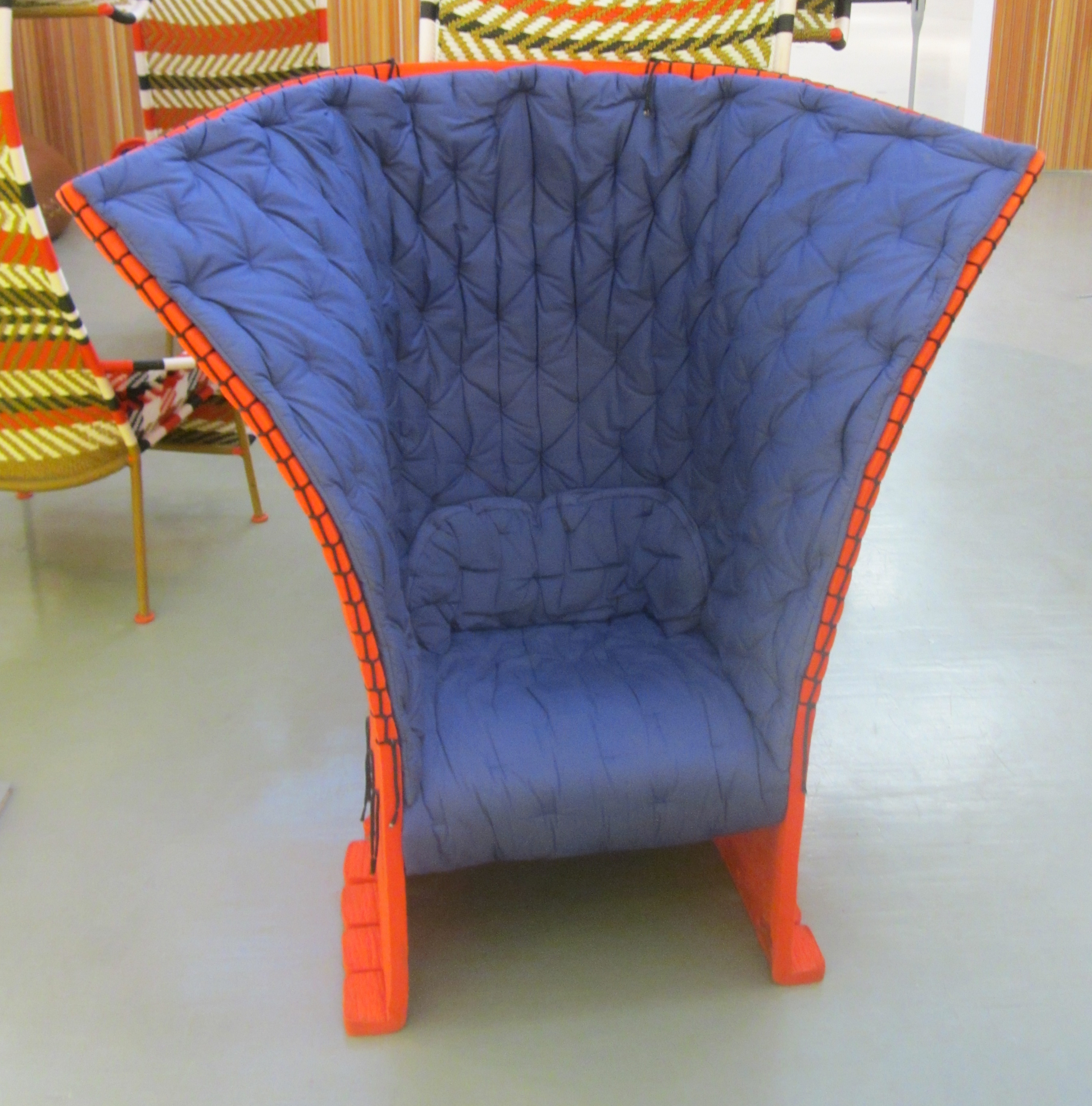 I Feltri, designed by Gaetano Pesce for CASSINA (1987). Photo made at Triennale Design Museum of Milan (free photo day)